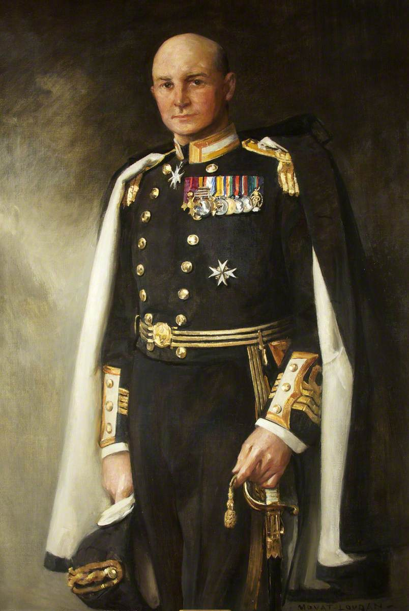 Loudan, William Mouat; Courtenay Charles Evan Morgan (1867-1934), 3rd Baron, 1st Viscount Tredegar (2nd Creation); National Trust, Tredegar House